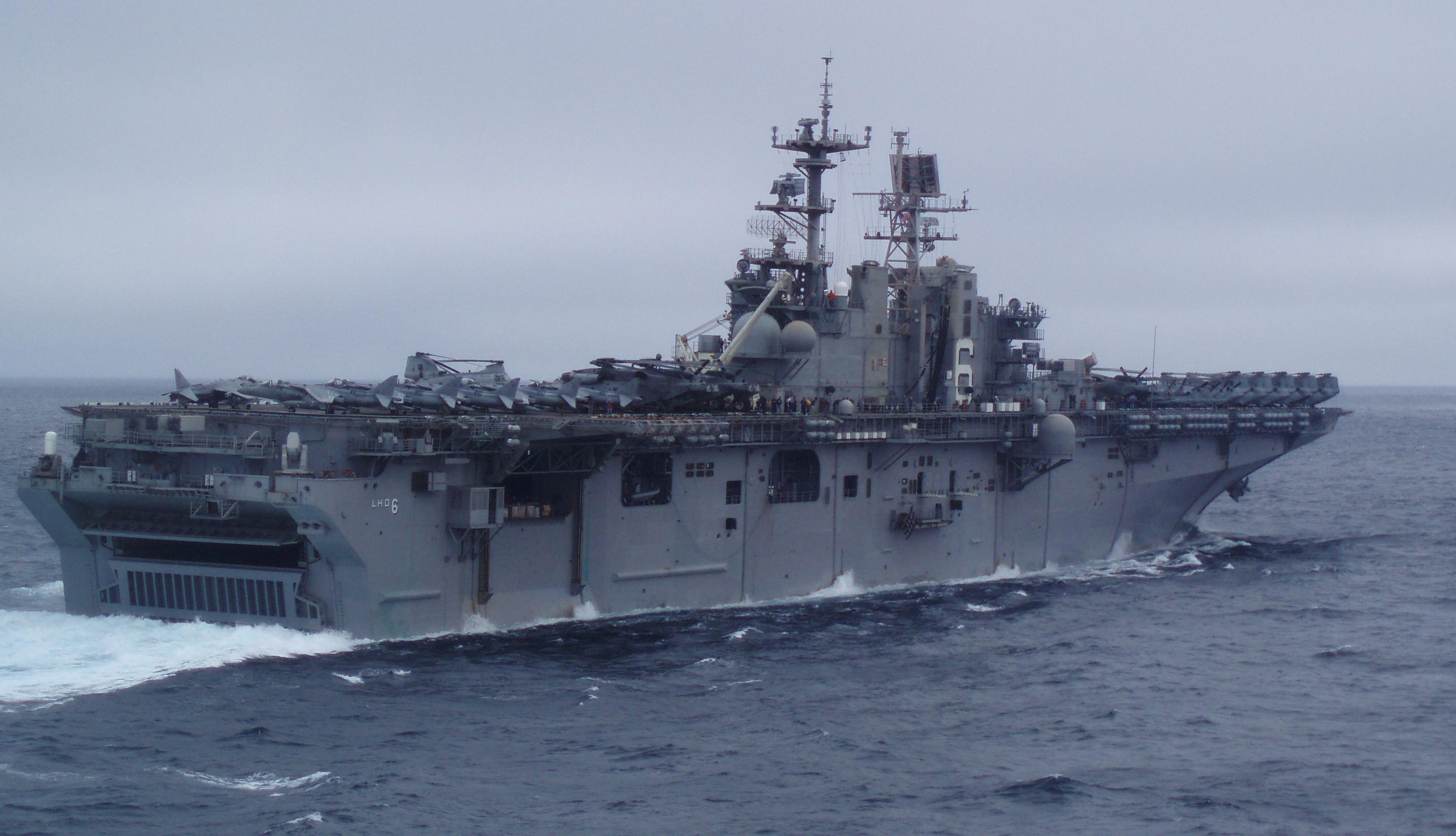 USS Bonhomme Richard sailing in the Pacific Ocean